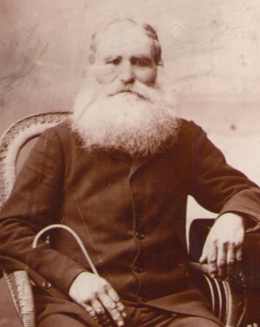 Иван Степанович Кравцов, помещик, атаман станицы Воздвиженская, внук хорунжего Ивана Кравцова, владельца имения Горбатовка